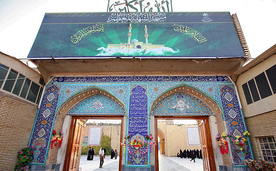 Entrance to al-Sahlah Mosque, Kufa, Iraq. Mosque of the 12th Shia Imam, Imam al-Mahdi.